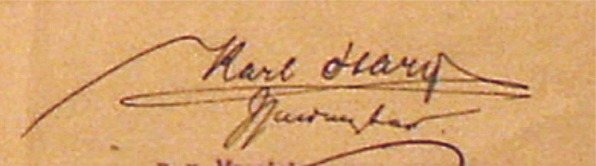 Signature of czech architect Karel Starý starší (1843-1929)